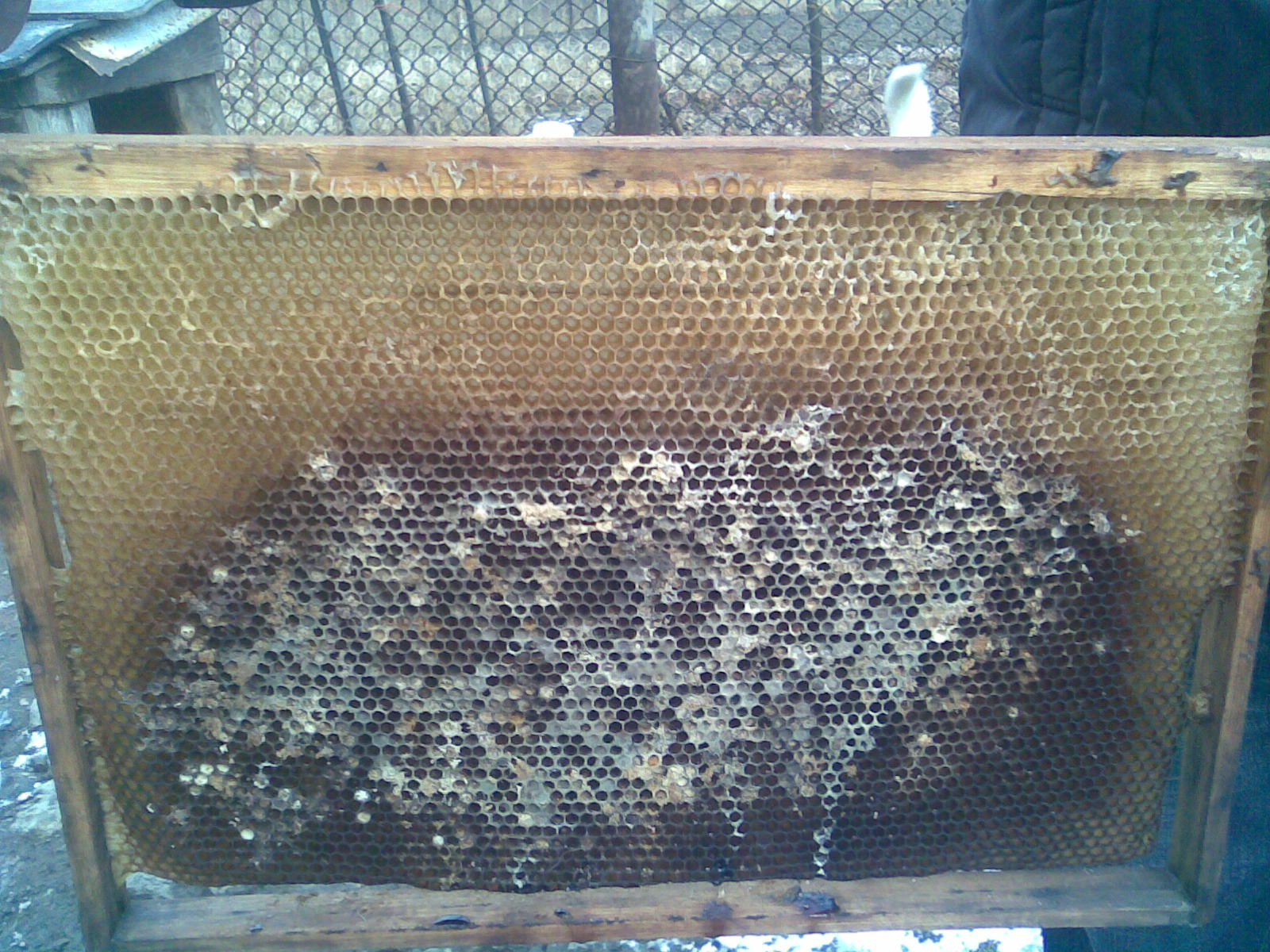 Frame from a beehive.